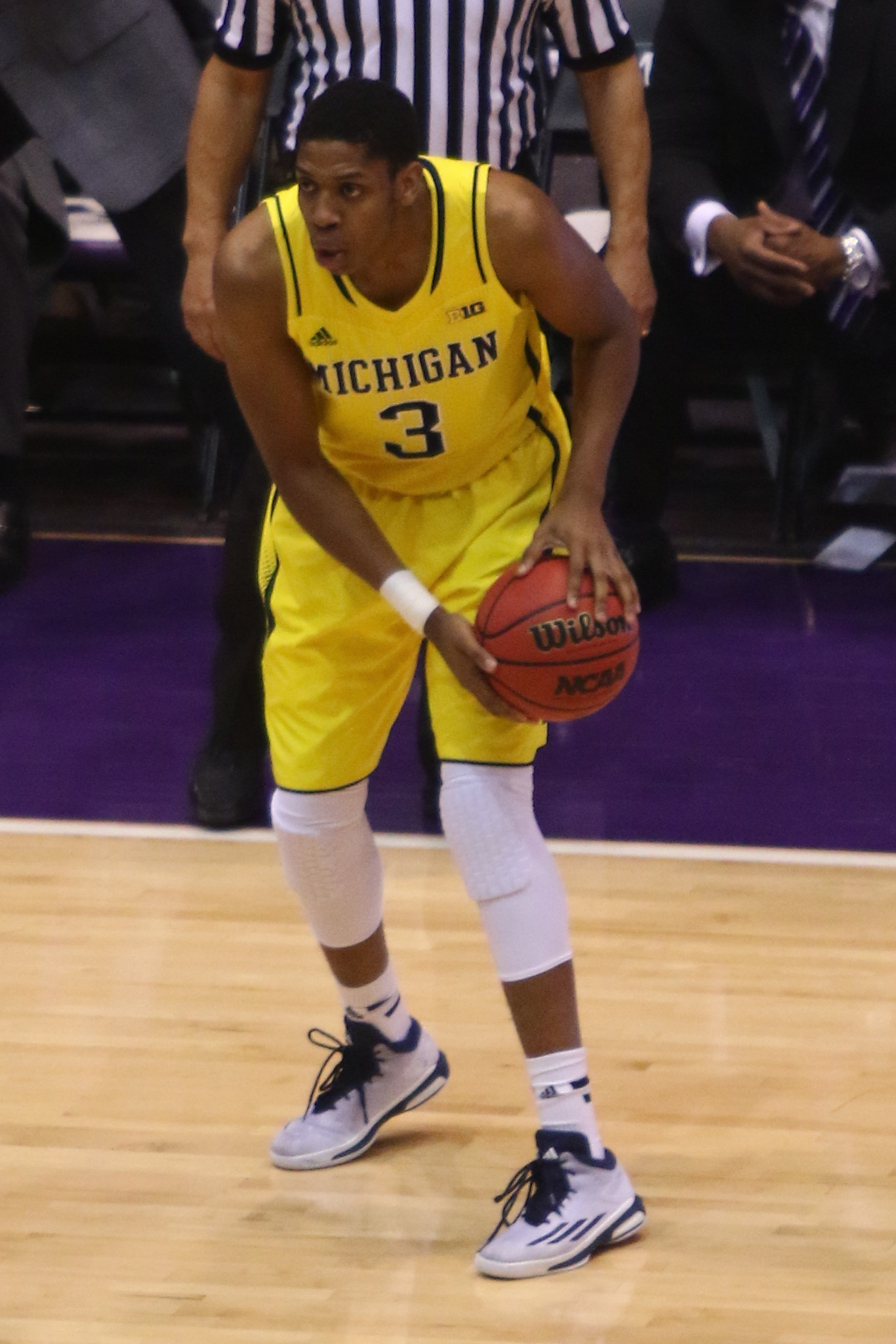 Kameron Chatman for the w:2014–15 Michigan Wolverines men's basketball team at Welsh-Ryan Arena